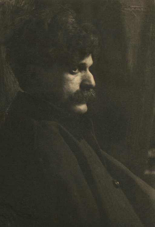 Frank Eugene: Mr. Alfred Stieglitz, originally published in Camera Notes vol4.nr.3, 1901, later in Camera Work nr.25, jan. 1909